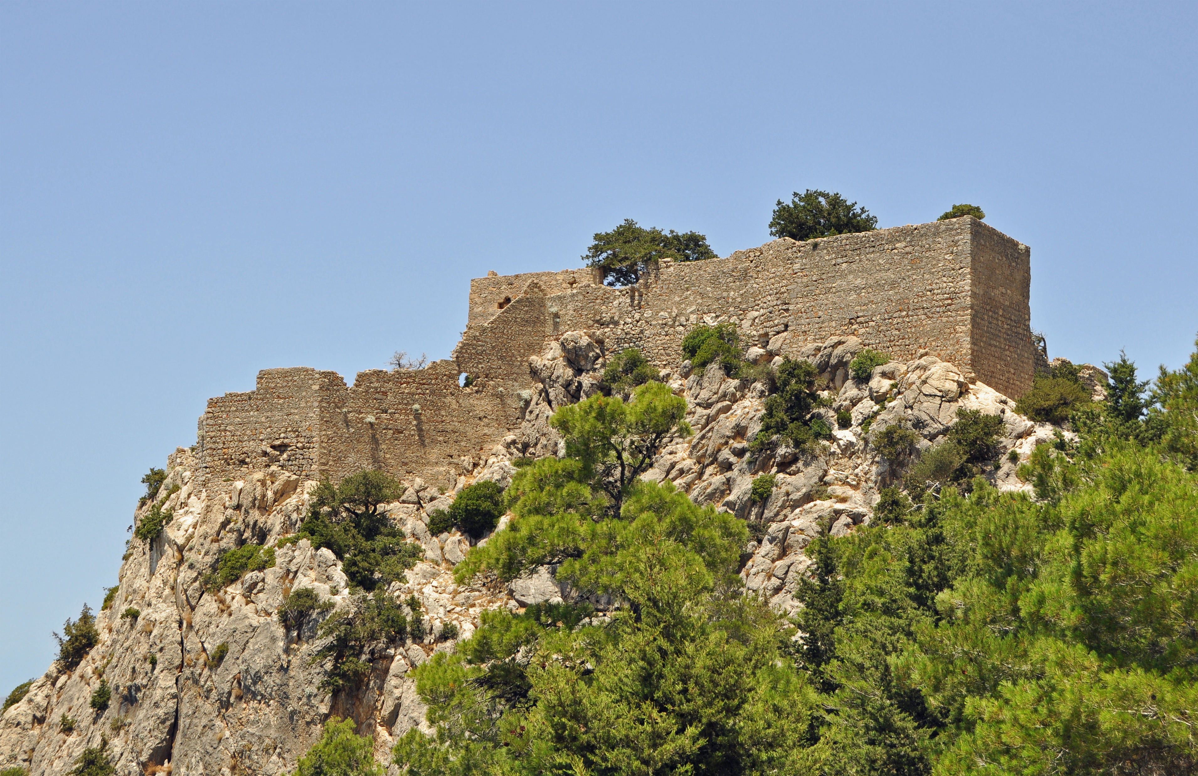 Monolithos (Rhodes, Greece): the castle from the 15th century